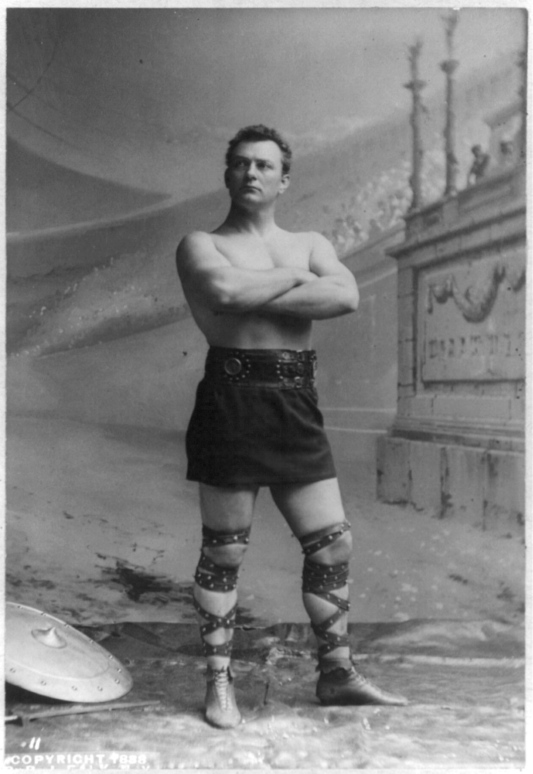 Title: William Muldoon, 1852-1933 Abstract/medium: 1 photographic print.